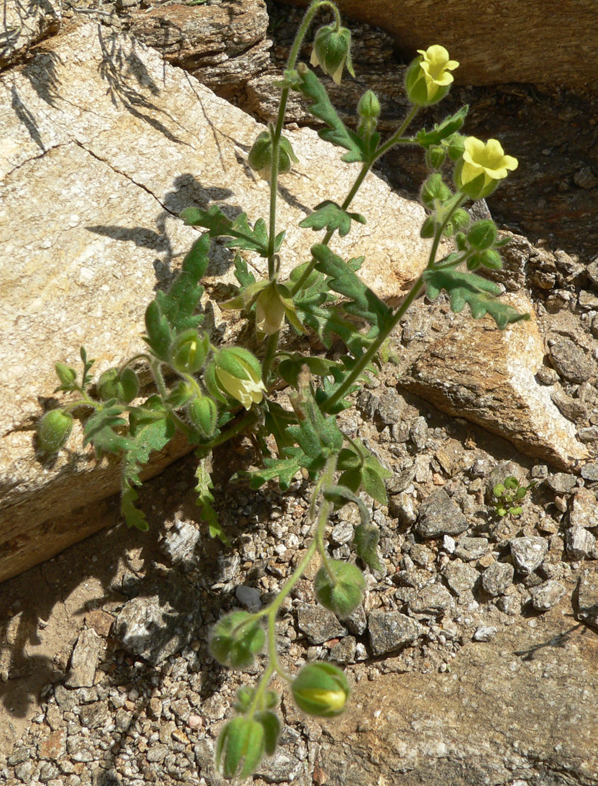 Emmenanthe penduliflora in Palm Canyon, just south of Palm Springs, California